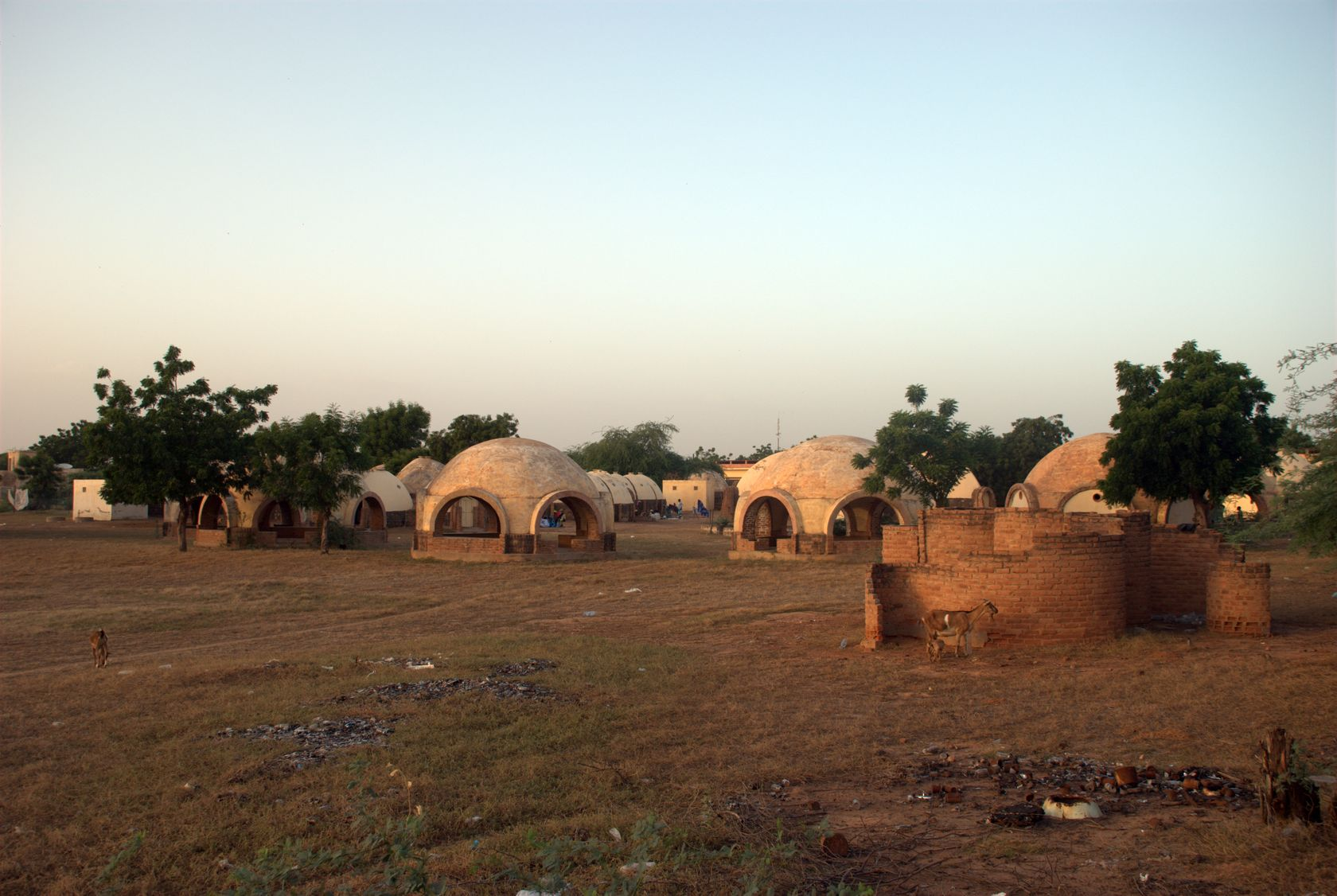 Kaedi Regional Hospital, Kaedi Mauritania